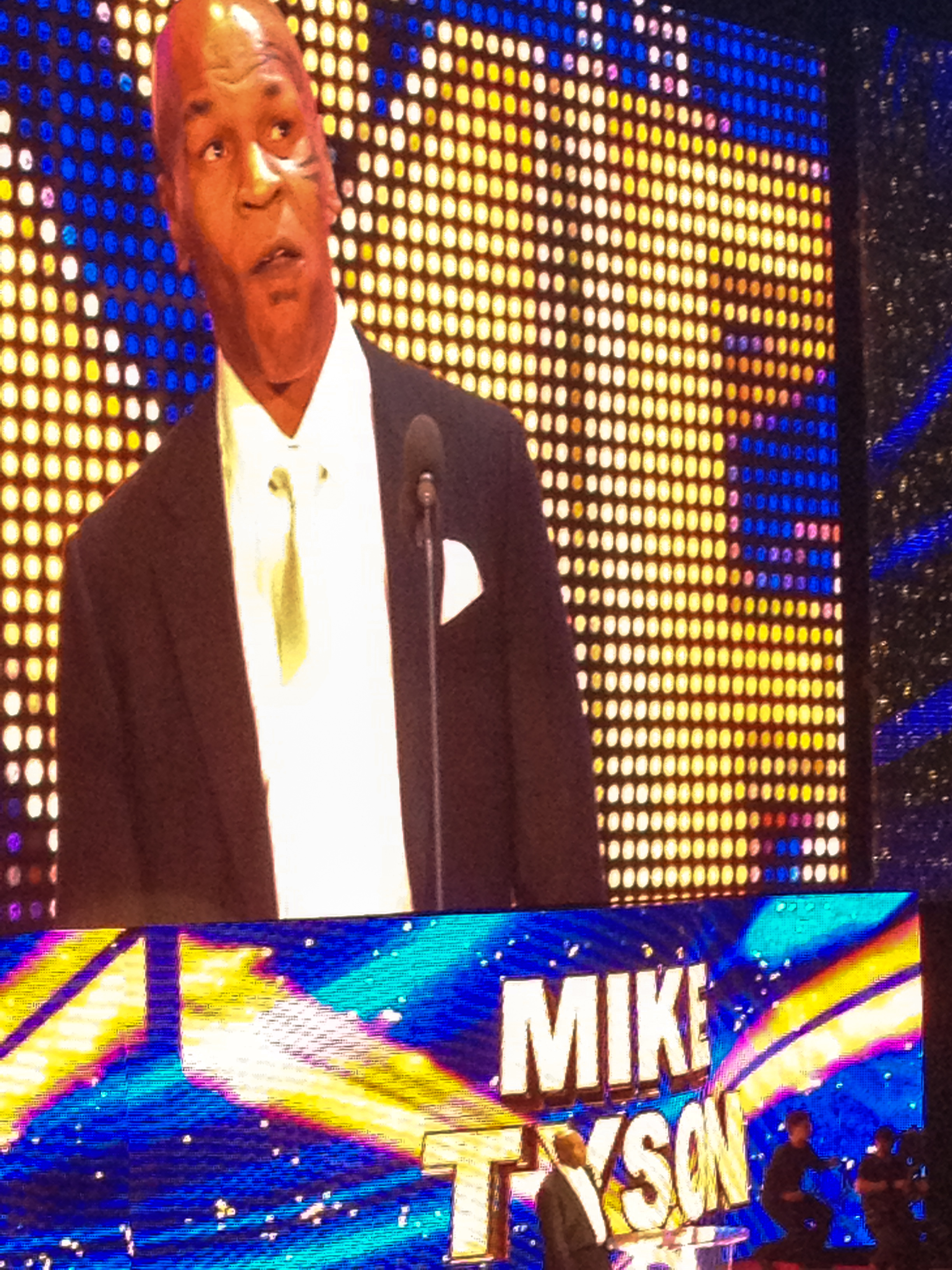 WWE Hall of Fame 2012 - Mike Tyson